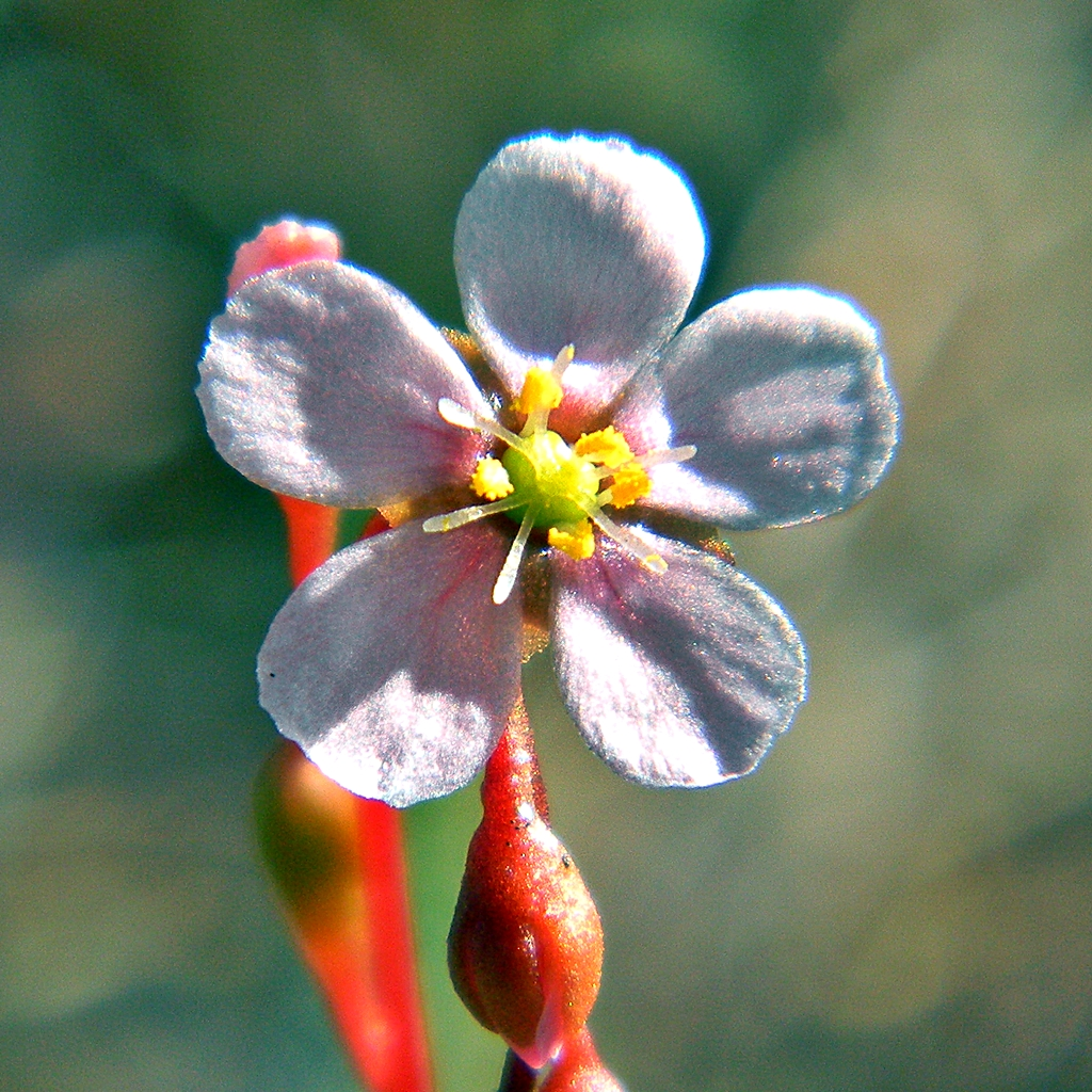 This is what the tiny flower of a pink sundew looks like. Trying to photograph the little 3-4mm flowers on their long thin stems in the wind is nerve racking! This one was growing in a temporarily dry depression marsh in the flatwoods at Jonathan Dickinson State Park, Martin County, Florida.